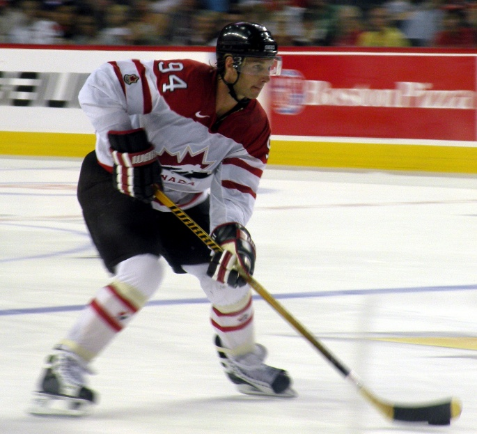 Ice hockey forward Ryan Smyth moves in on goal during a shootout at Hockey Canada's Red-White game at pre-Olympic camp in Calgary, Alberta.